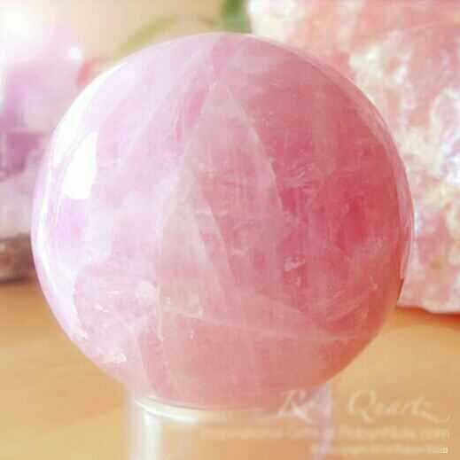 rose cuartez